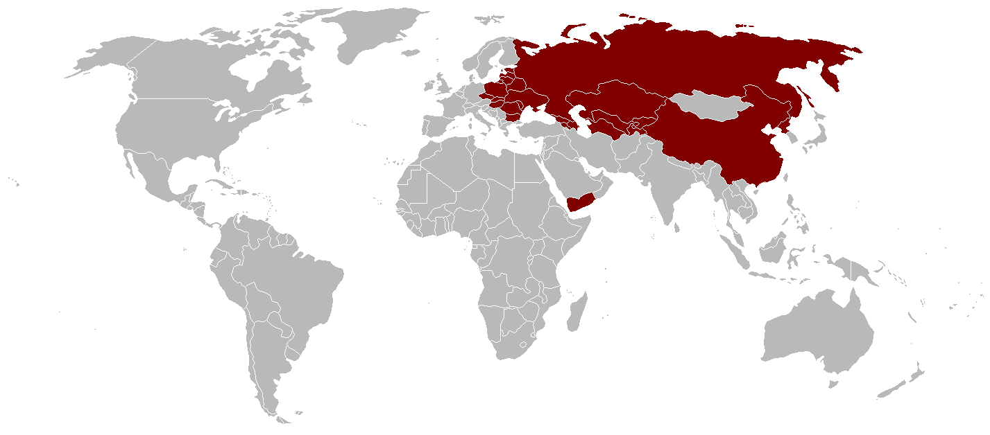 World map of Ilyushin Il-10 operators